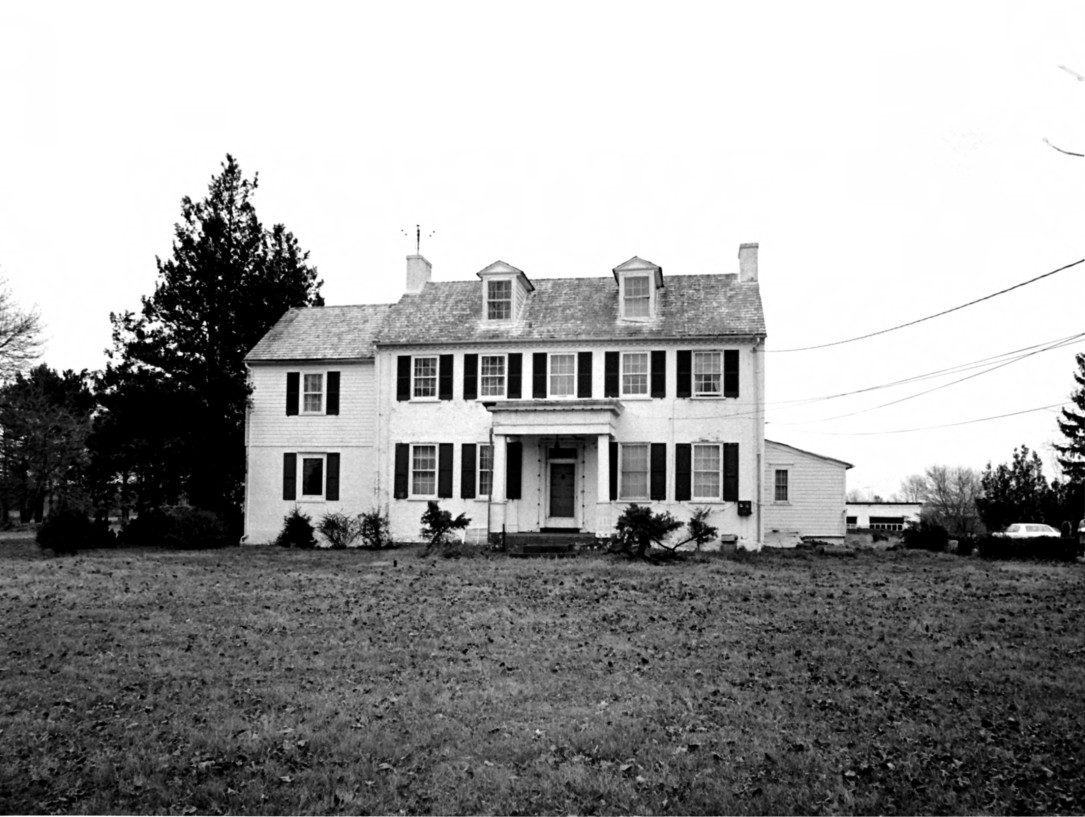 Walnut Lane, White Clay Creek Hundred, New Castle County, Delaware. Demolished by 1992.